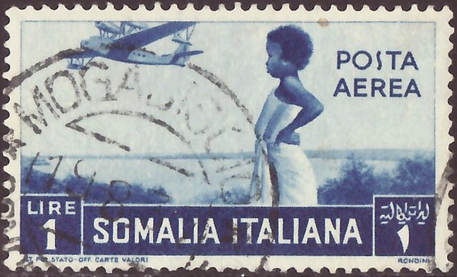 Stamp of Somalia Italiana; 1936; airmail stamp with girl and airplane; postmarked in Mogadishu (Italian: Mogadiscio), 1937 Stamp: Michel: No. 237 (IT-SO); Yvert & Tellier: PA22 (IT-SO); Scott: C11 (IT-SO) Color: deep blue Watermark: none Nominal value: 1 ₤ (Lire) (=U+20A4 at Windows - Times New Roman) Postage validity: from 11 May 1936 until 1941 date QS:P,+1950-00-00T00:00:00Z/7,P580,+1936-05-11T00:00:00Z/11,P582,+1941-00-00T00:00:00Z/9 Postmark: Mogadishu, 19 August 1937 (two-circle postmark with non-passing through date fess, 29 mm outer circle, empty inner area)